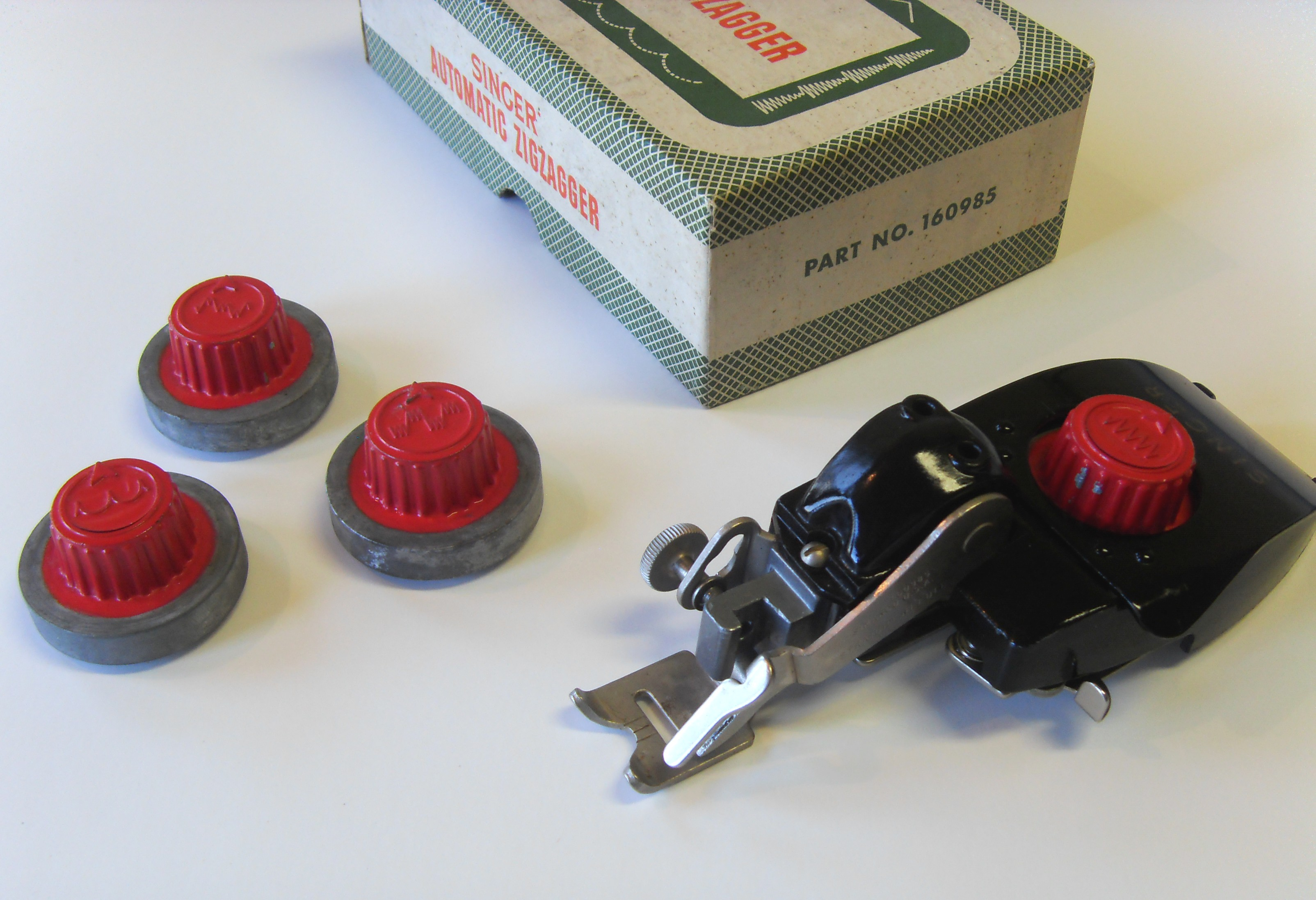 Singer model 160985 automatic zigzagger attachment - complete kit shown